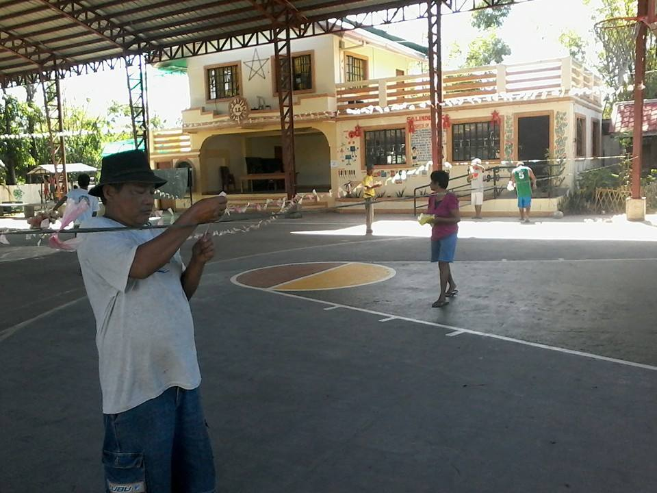 public plaza of Salindeg